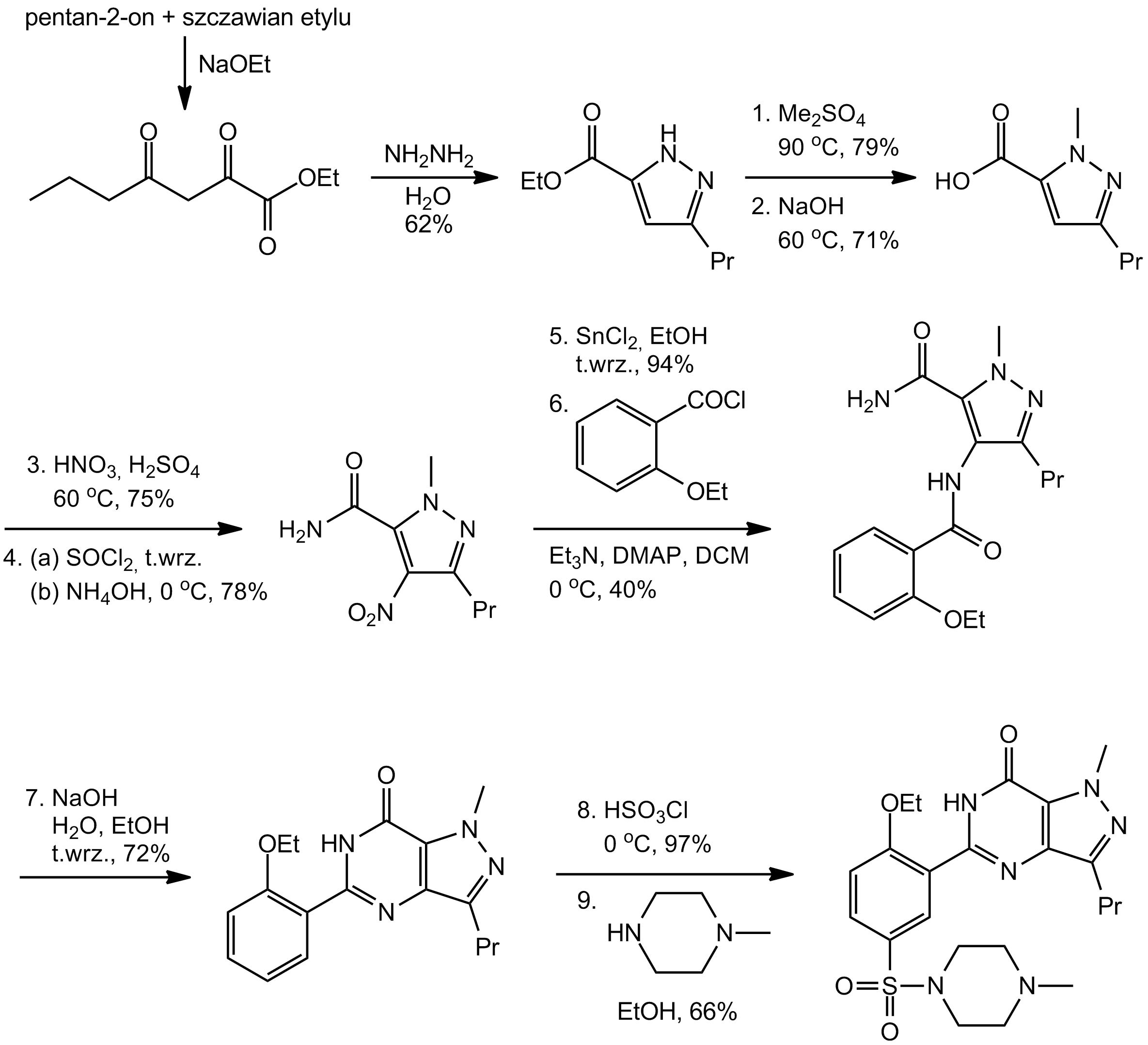 Synthesis of sildenafile